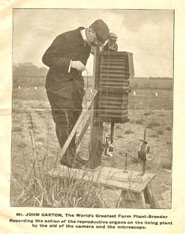 Dr John Garton photographing